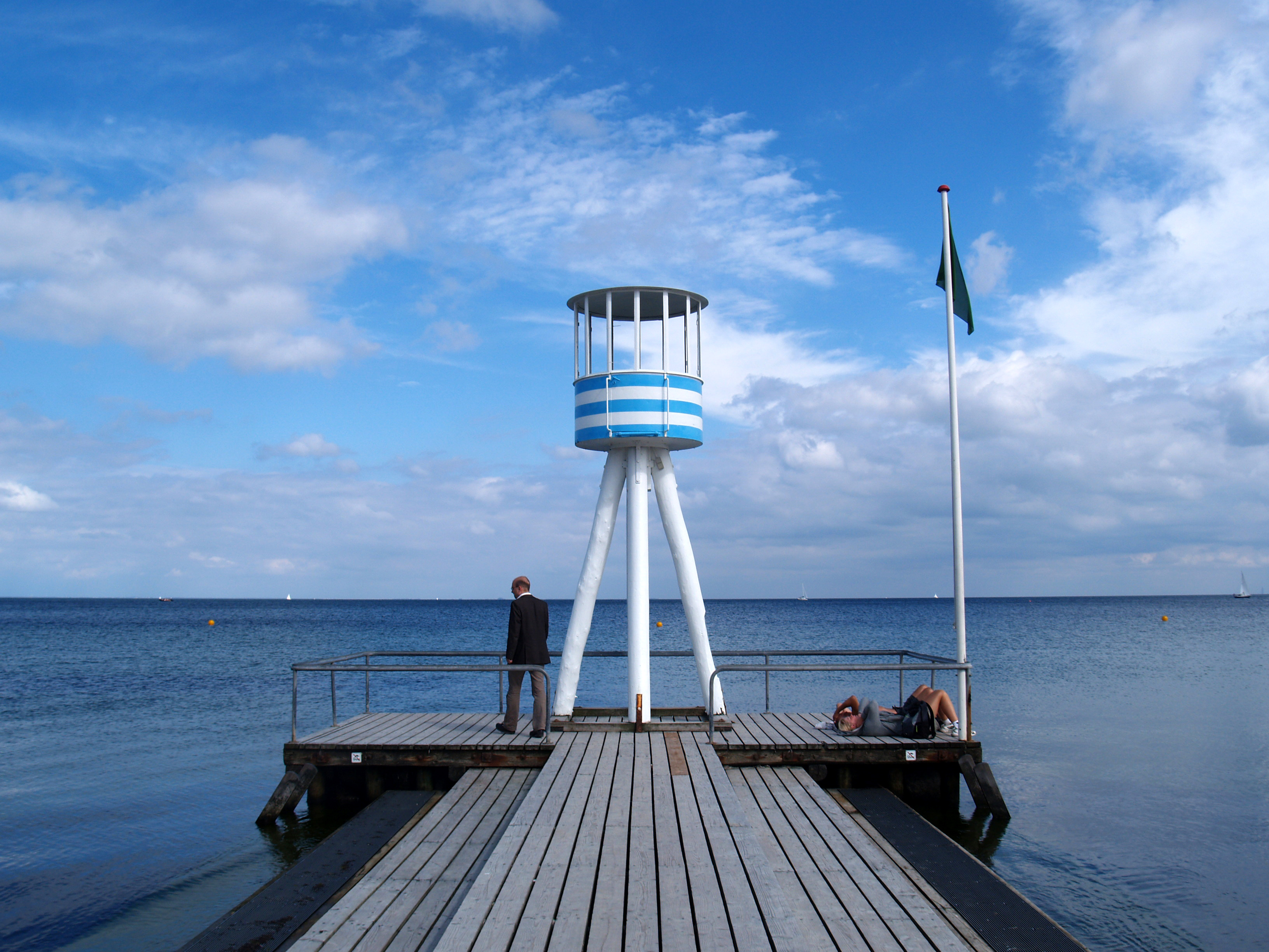 Life guard tower, Klampenborg, Denmark. The bathing facilities were architect Arne Jacobsen's first commission in Klampenborg.